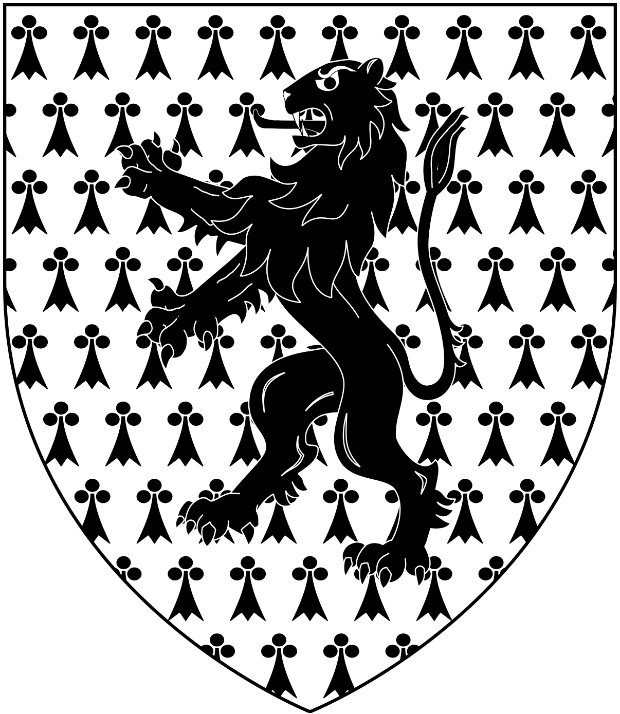 Arms of Edwardes, Baron Kensington: Ermine, a lion rampant sable (Montague-Smith, P.W. (ed.), Debrett's Peerage, Baronetage, Knightage and Companionage, Kelly's Directories Ltd, Kingston-upon-Thames, 1968, p.627)